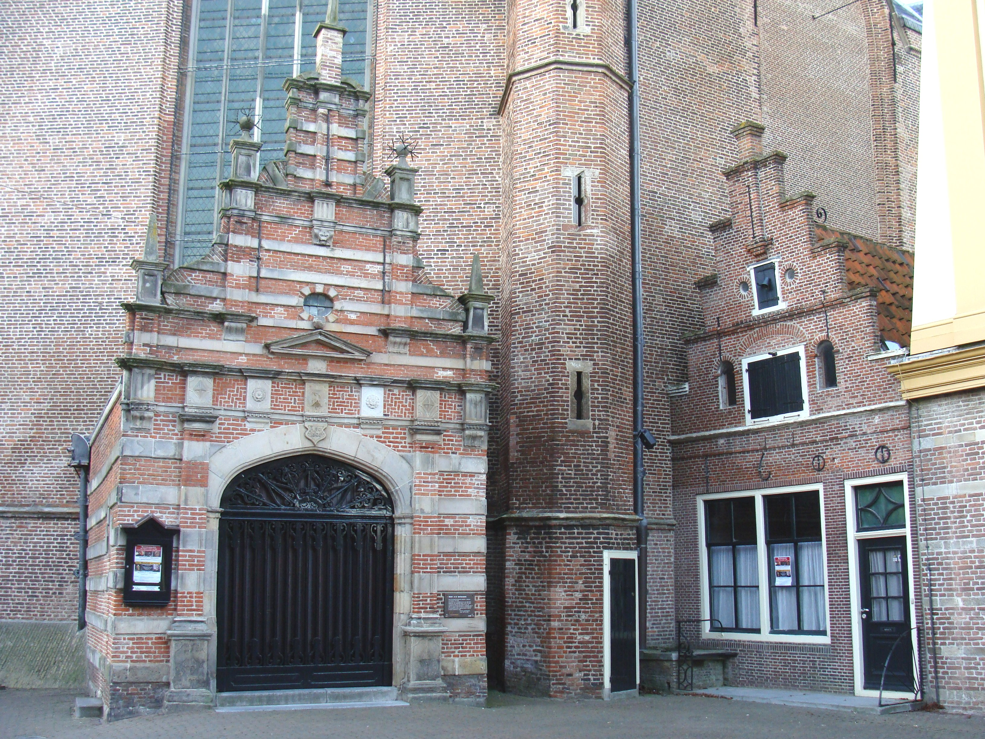 Eastern entrance (left) and former sexton's house (right) of the Westerkerk in Enkhuizen, the Netherlands